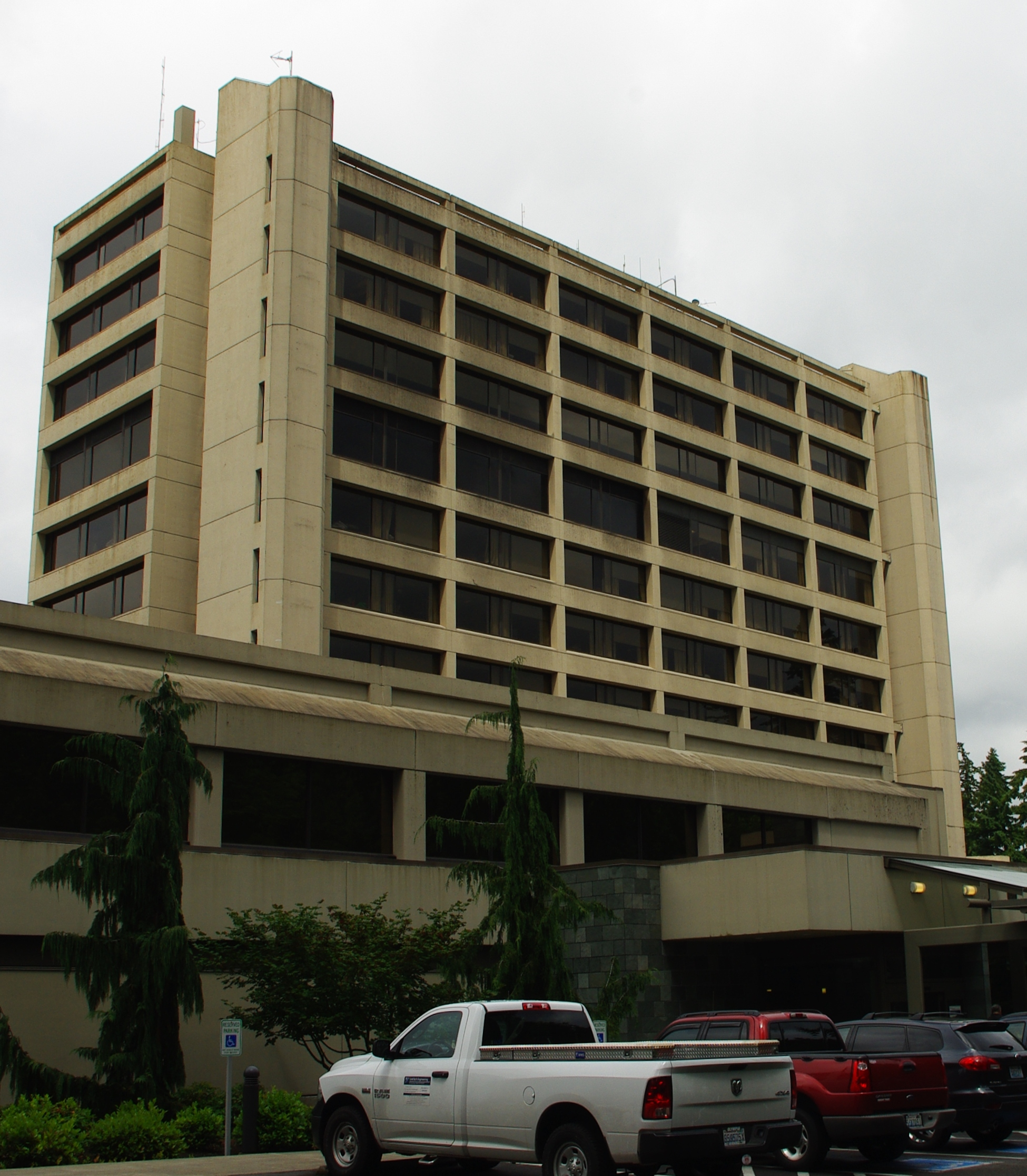 Providence Saint Peter Hospital in Olympia, Washington